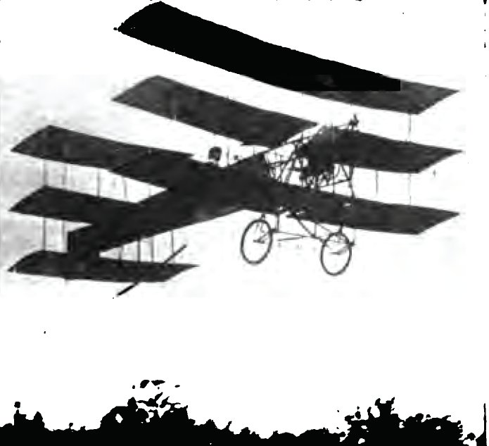 Photograph of the A.V. Roe "Bulls Eye" (Roe III Triplane), an early product of Avro Aircraft Company